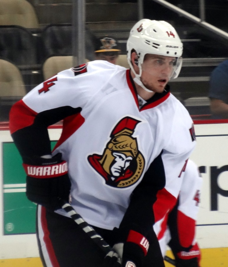 Ottawa Senators forward Colin Greening during game two of their second round series against the Pittsburgh Penguins, May 17, 2013 at Consol Energy Center in Pittsburgh, PA.